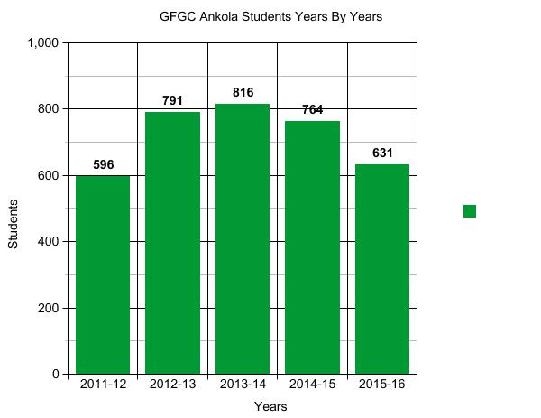 Govt First Grade College Ankola Students Graph